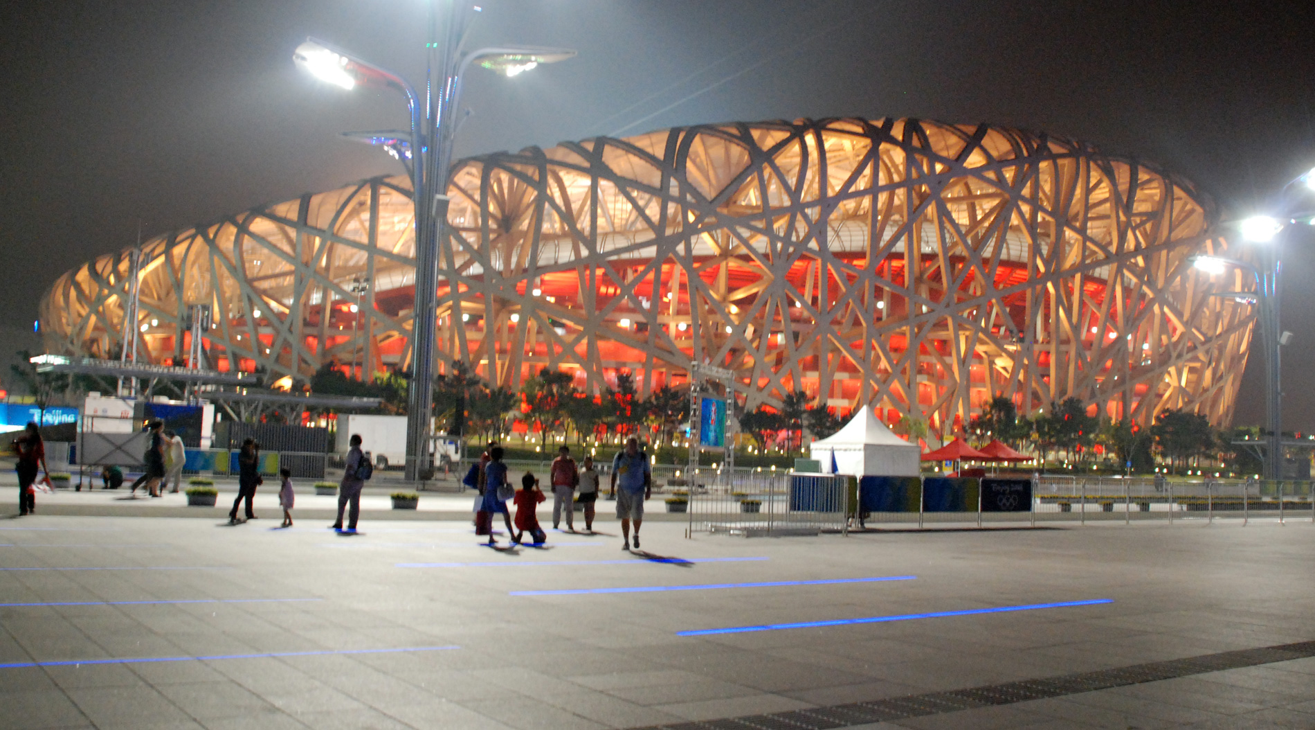 View of the Bird's nest, Beijing, during the 2008 Olympic games